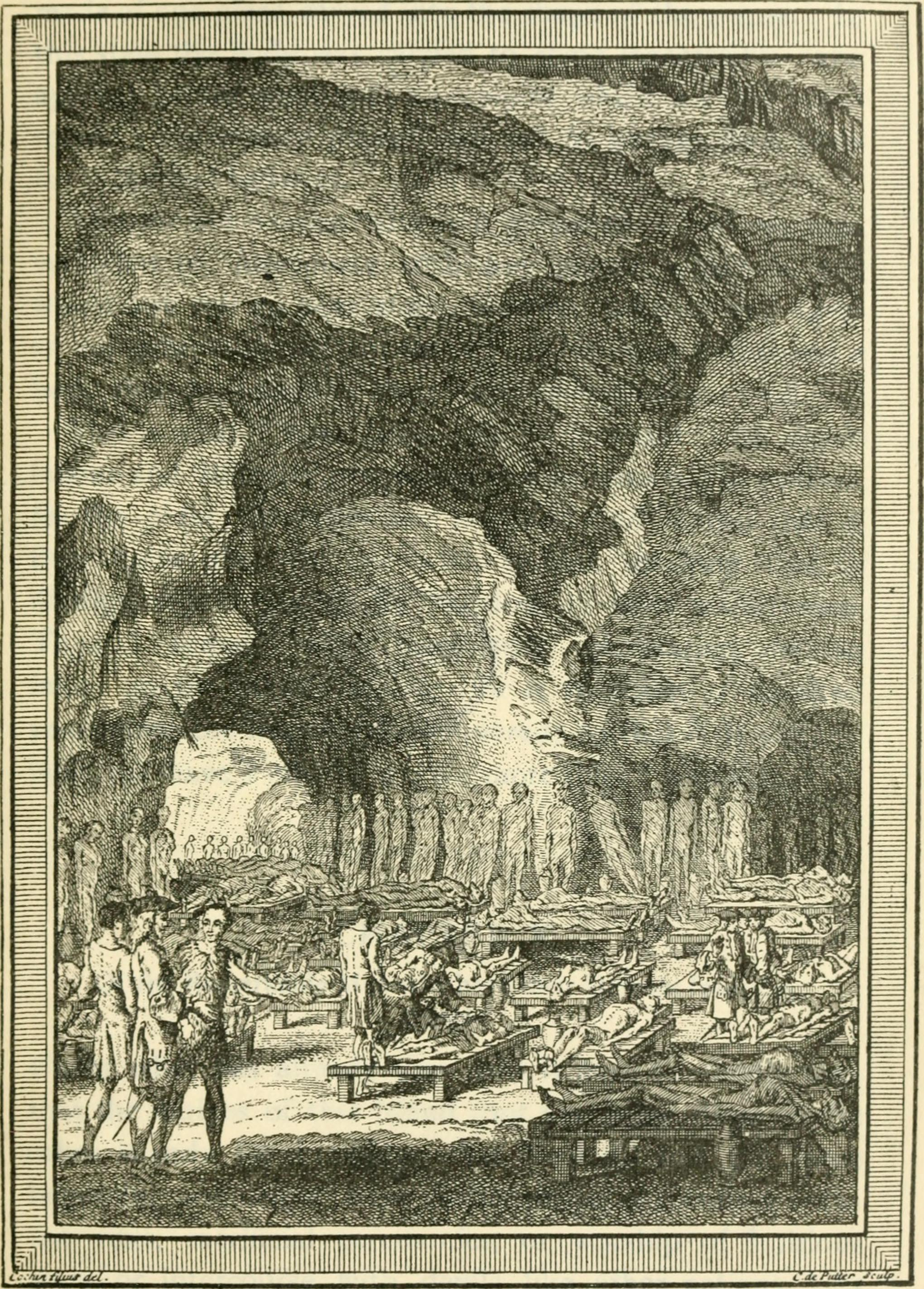 Title: The Guanches of Tenerife, the holy image of Our Lady of Candelaria, and the Spanish conquest and settlement Year: 1907 (1900s) Authors: Espinosa, Alonso de, 16th cent Markham, Clements R. (Clements Robert), Sir, 1830-1916 Subjects: Guanches Candelaria (Canary Islands) Tenerife (Canary Islands) -- History Canary Islands -- Bibliography Publisher: London : Printed for the Hakluyt society Text Appearing Before Image: During this time the relations mourned andwept, for there were no obsequies after the end of it. Thecorpse was then sewn up and enveloped in leather fromcertain heads of the flock, selected and set apart for thepurpose. Thus the corpse of the deceased could after-wards be known by marks on the hide. These skins weretanned to chamois colour, and were sewn over with pine barkwith much skill, by means of thongs of the same bark,so that the sewing could hardly be seen. In these tannedskins the body of the deceased was enveloped and sewnup. Many other skins were placed on the top, and some ^ The Cocomas, a tribe of the Amazons.2 Jarco^ the deceased. Series II. Vol. XXI. Text Appearing After Image: ¿^^ar^ae¿n^/ioeÁle^ der^ Gua^fcAen/. Facsimile from ALLGEMEINE HISTORIE DER REISEN ZU WASSER UND LANDE/ Vul. 2. Paííe40. LIEPZIG, 1748Reproduced and pritited for the Hakliiyt Society by Donald Macbeth